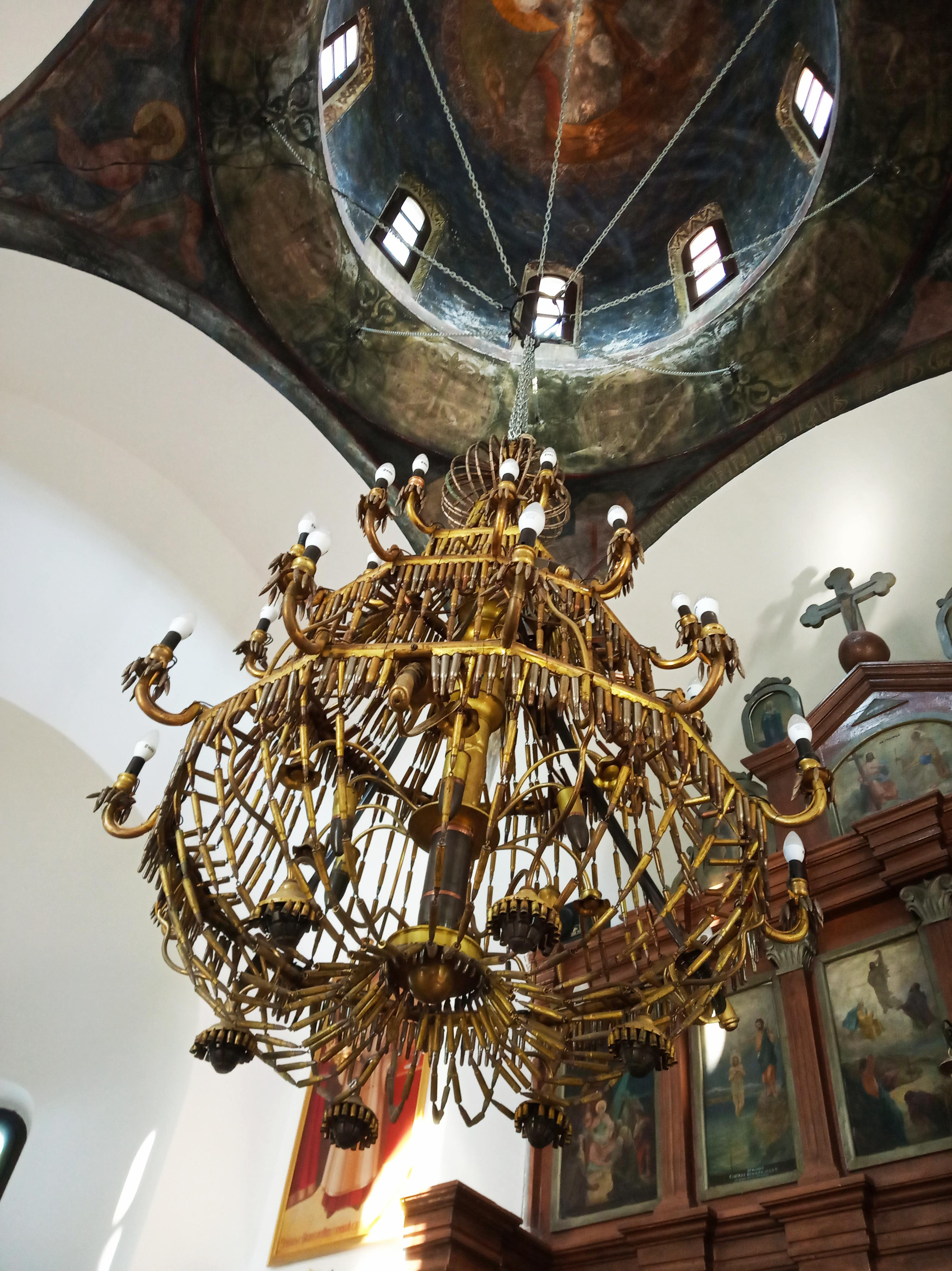 A chandelier made from the ammunition of fighters used in the battle of Pecka (Serbia) Srpski (latinica): Luster napravljen od municije boraca korišćene u bici kod Pecke